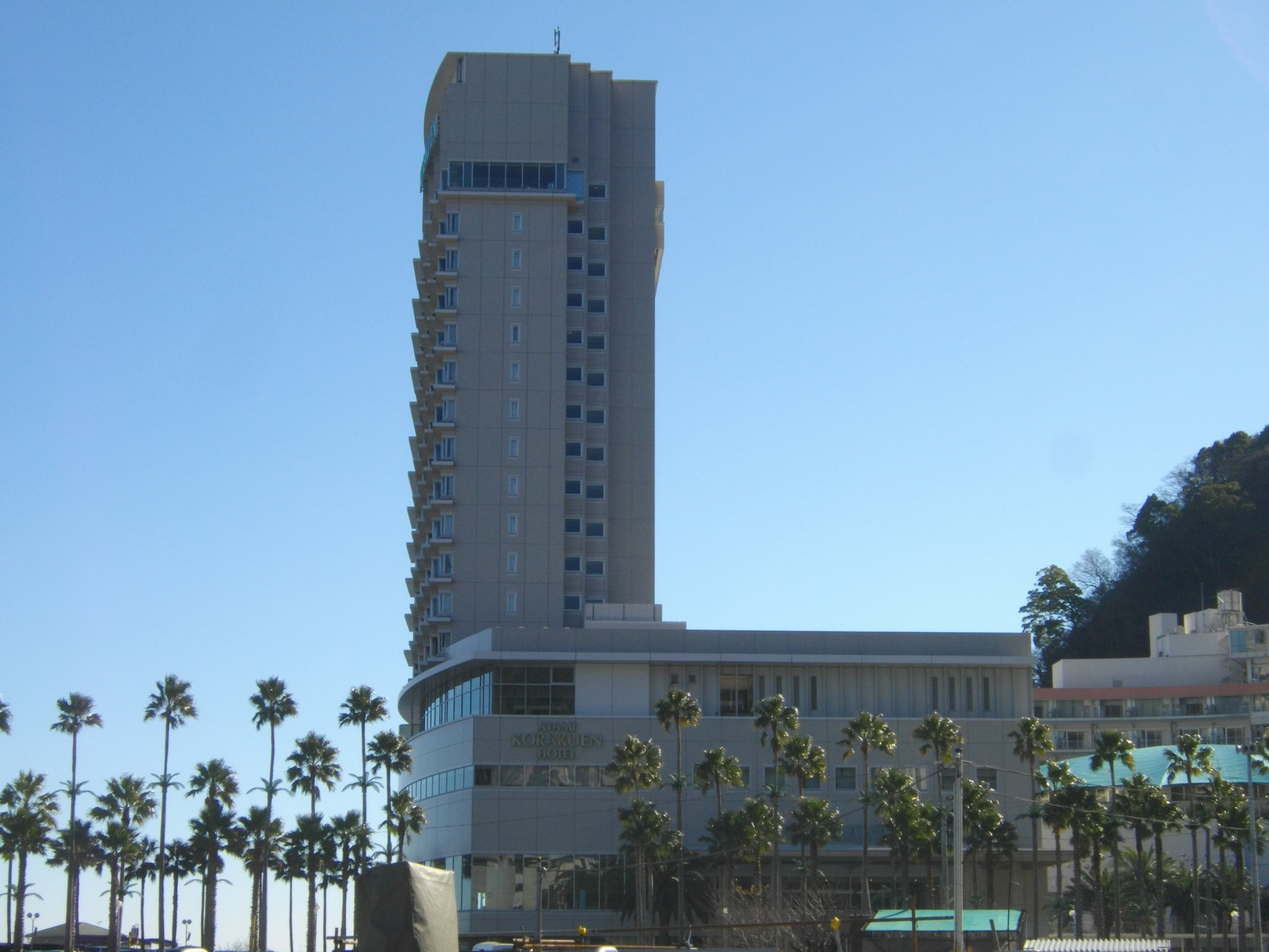 Atami Korakuen Hotel